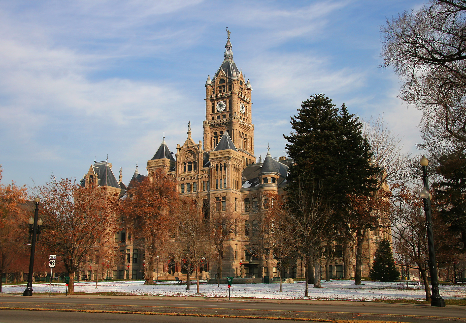 Salt Lake City and County Building in downtown Salt Lake City, construction finished in 1894.